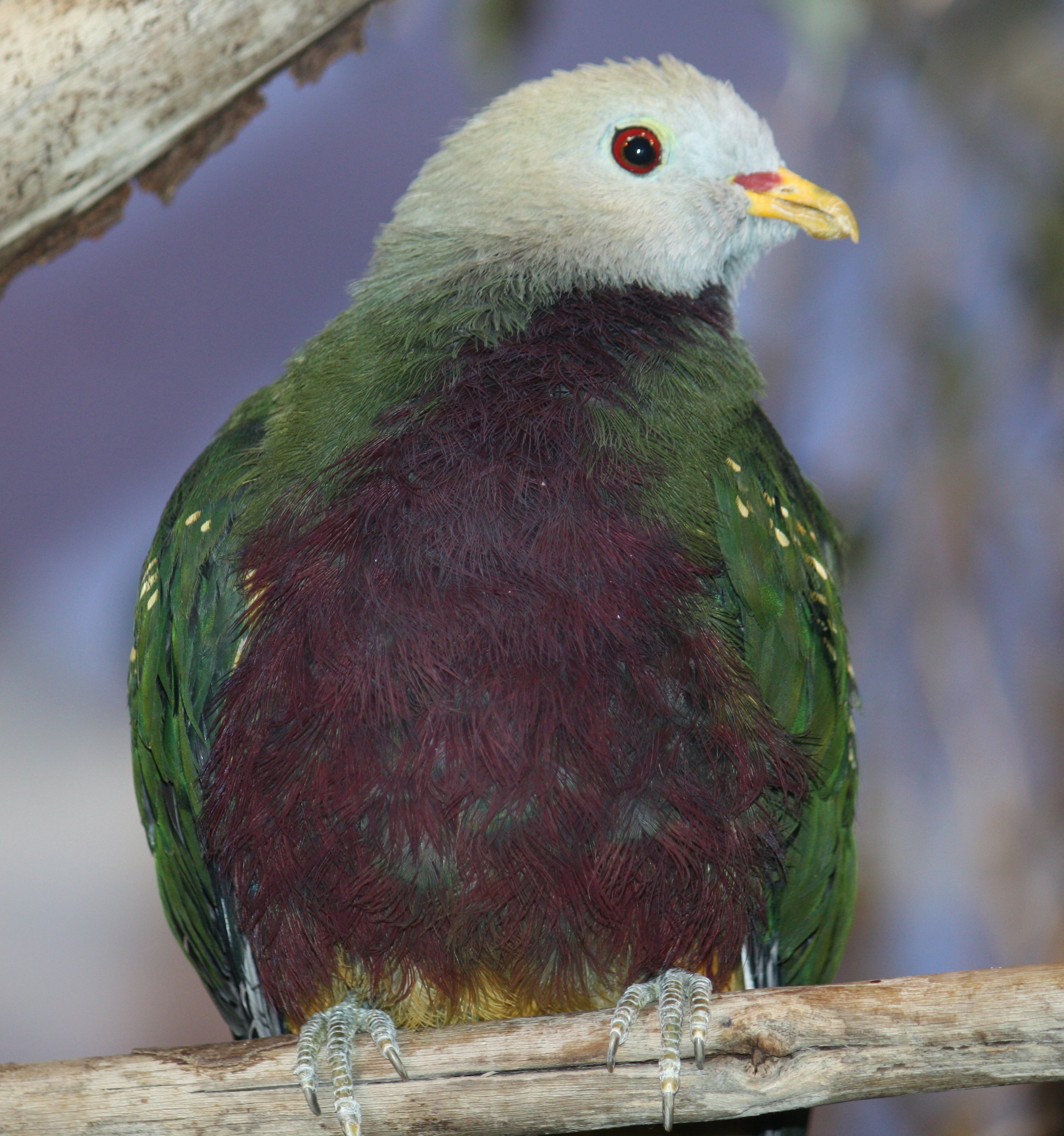 Ptilinopus magnificus at the Louisville Zoo